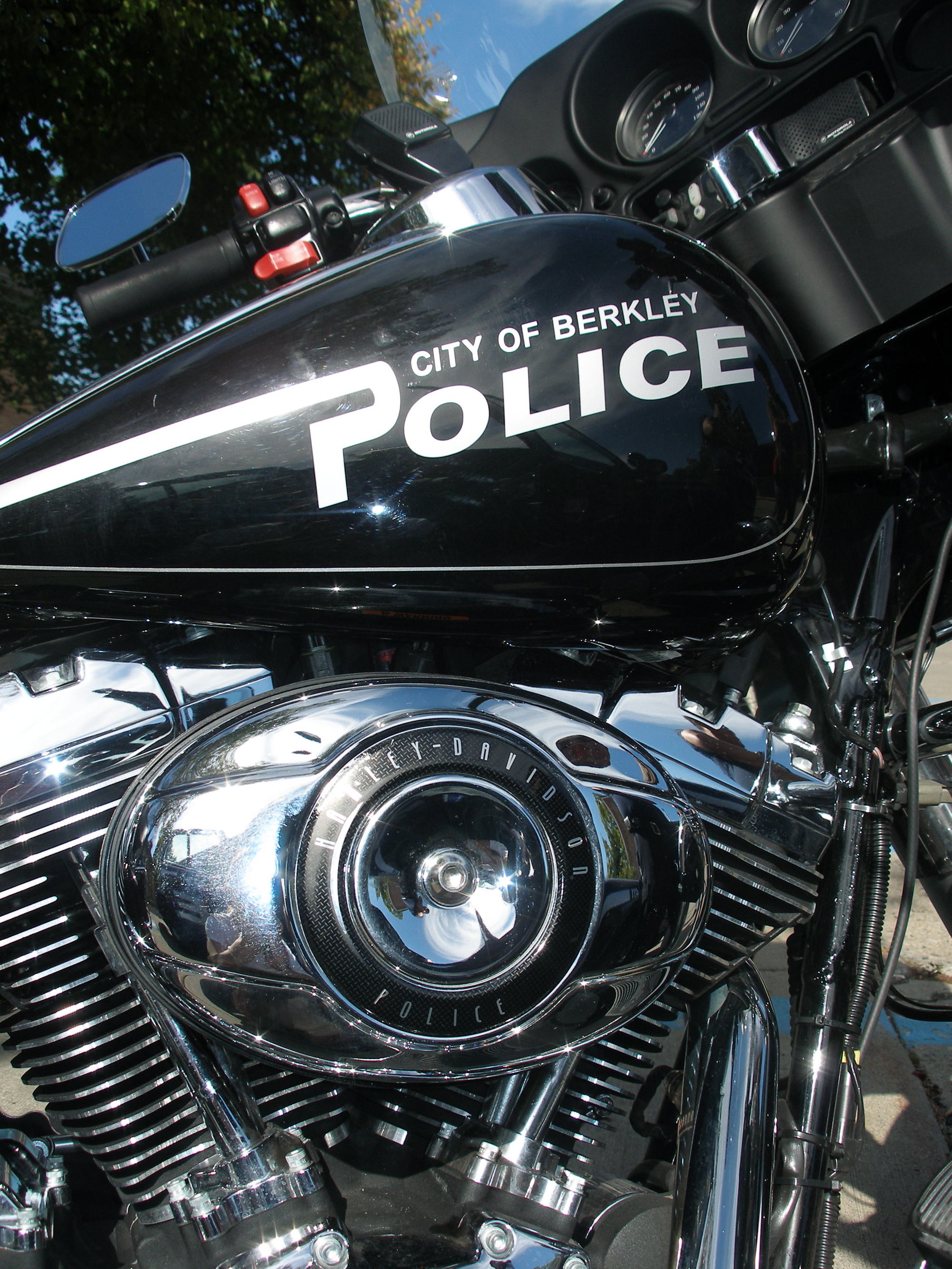 Close up of a police issue Harley Davidson Police motorcycle's 96-CID Twin Cam engine used by the Berkley, Michigan Police Department.